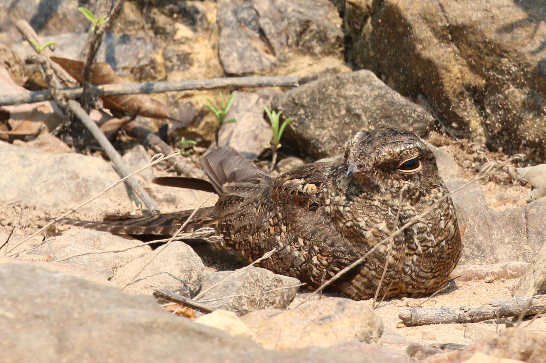 Ladder-tailed nightjar (Hydropsalis climacocerca) on eggs, Rio São Manuel, South Amazon, Brazil